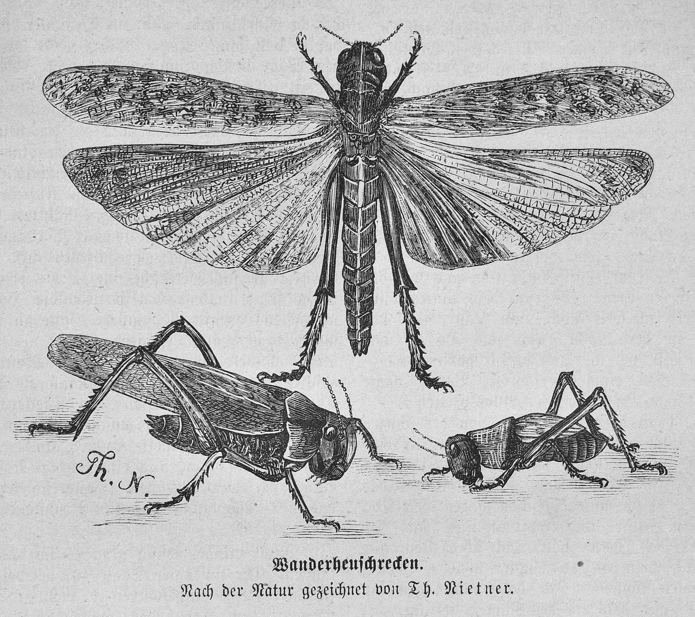 caption: "Wanderheuschrecken.Nach der Natur gezeichnet von Th. Nietner."